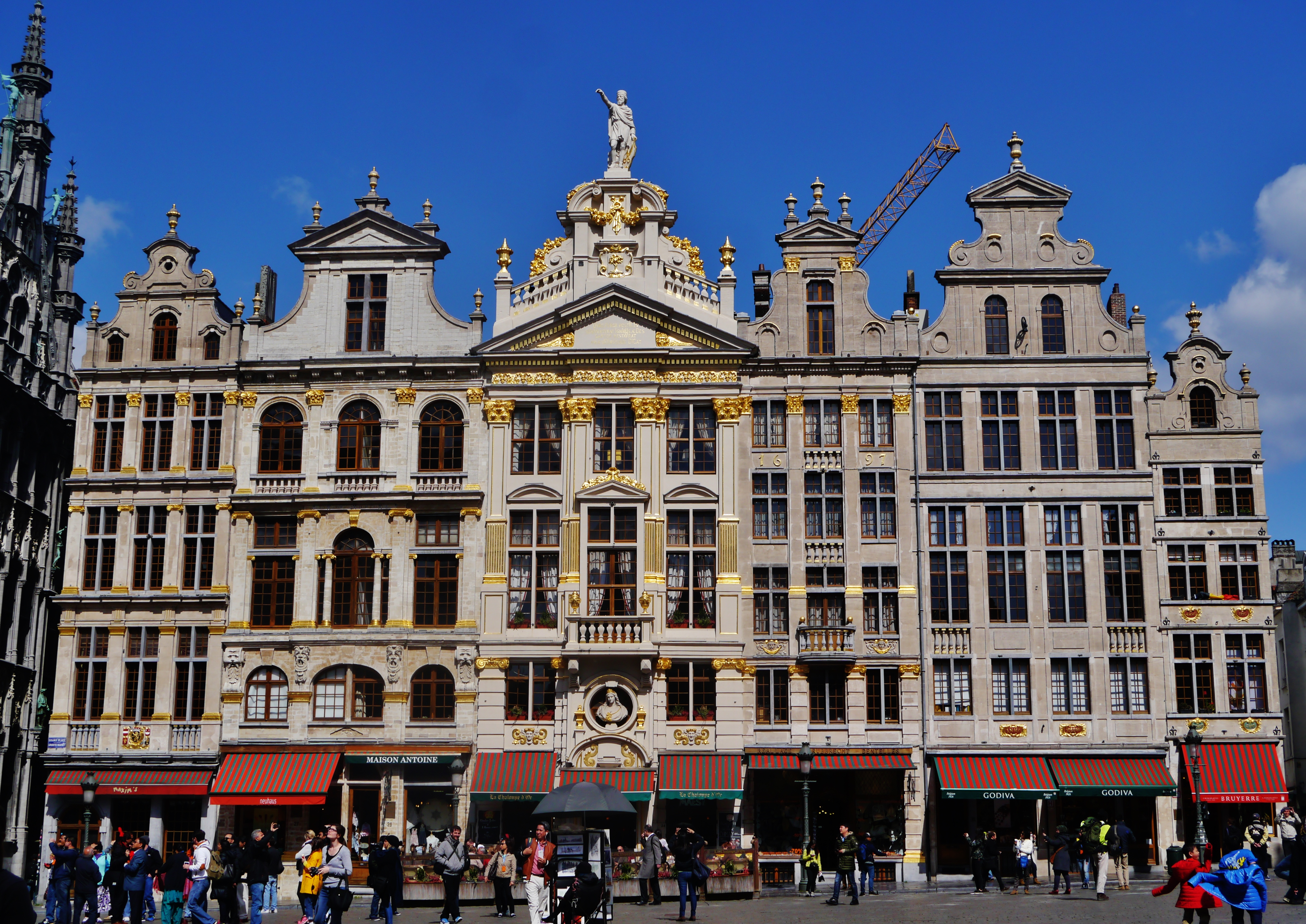 No. 20 till 28 at the Grand Square, Brussels, Region of Brussels, Belgium